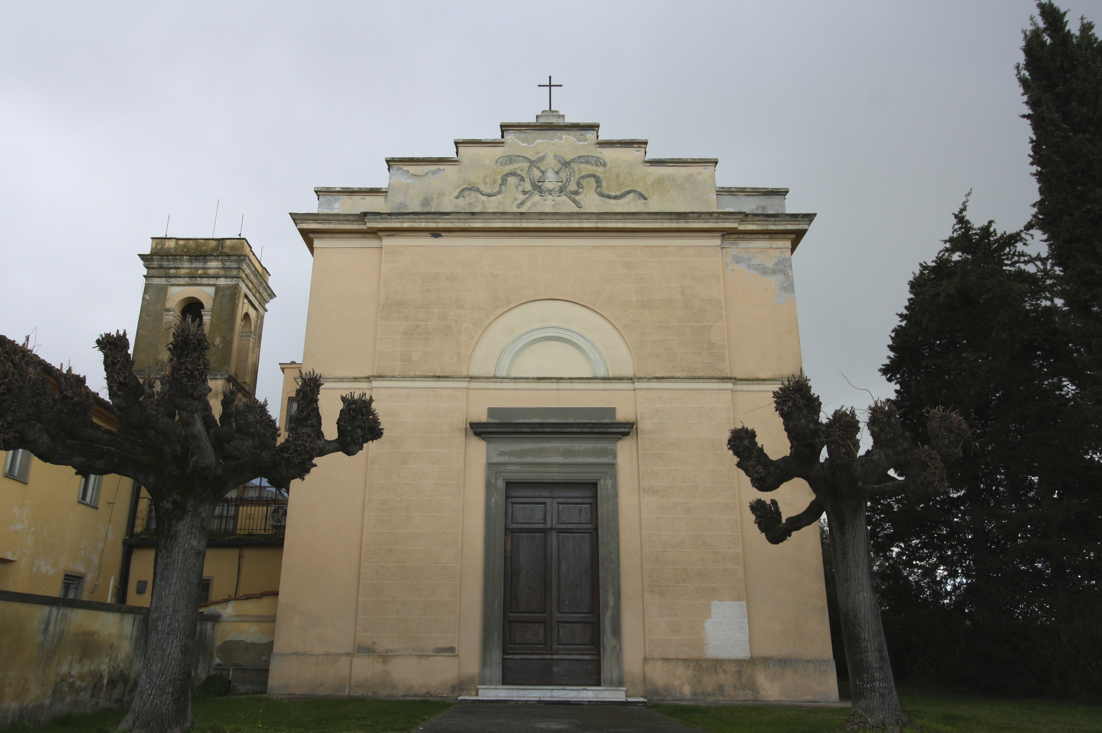 Church Sant'Ilario, Titignano, hamlet of Cascina, Province of Pisa, Tuscany, Italy